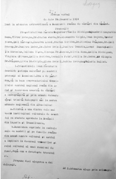 Mandate of the Romanian Association of Singing of Năsăud, in which it says that Victor Motogna was elected, on 28th of november 1918, deputy in the Great National Assembly from Alba Iulia - Romania, 1918Română: Credenționalul Reuniunii române de cântări din Năsăud, în care scrie ca Victor Motogna a fost ales, la data de 28 noiembrie 1918, deputat în Marea Adunare Națională de la Alba Iulia, 1918